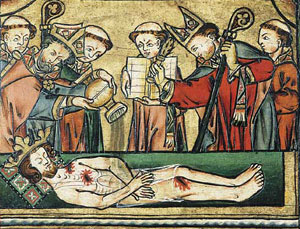 A panel from Nidaros Cathedral, dated around 1320 showing Olav, being exhumed by Bishop Grimketel, and declared a saint, on the 3 August 1031. At this time, local bishops and their people could proclaim a person a saint as the formal canonisation procedure through the papal curia was not customary then.